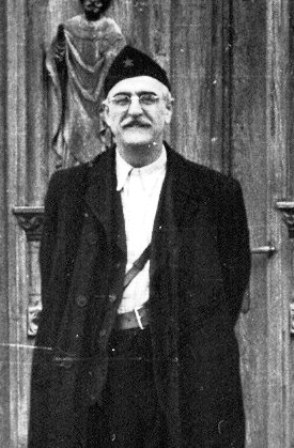 Josip Rus-Andrej